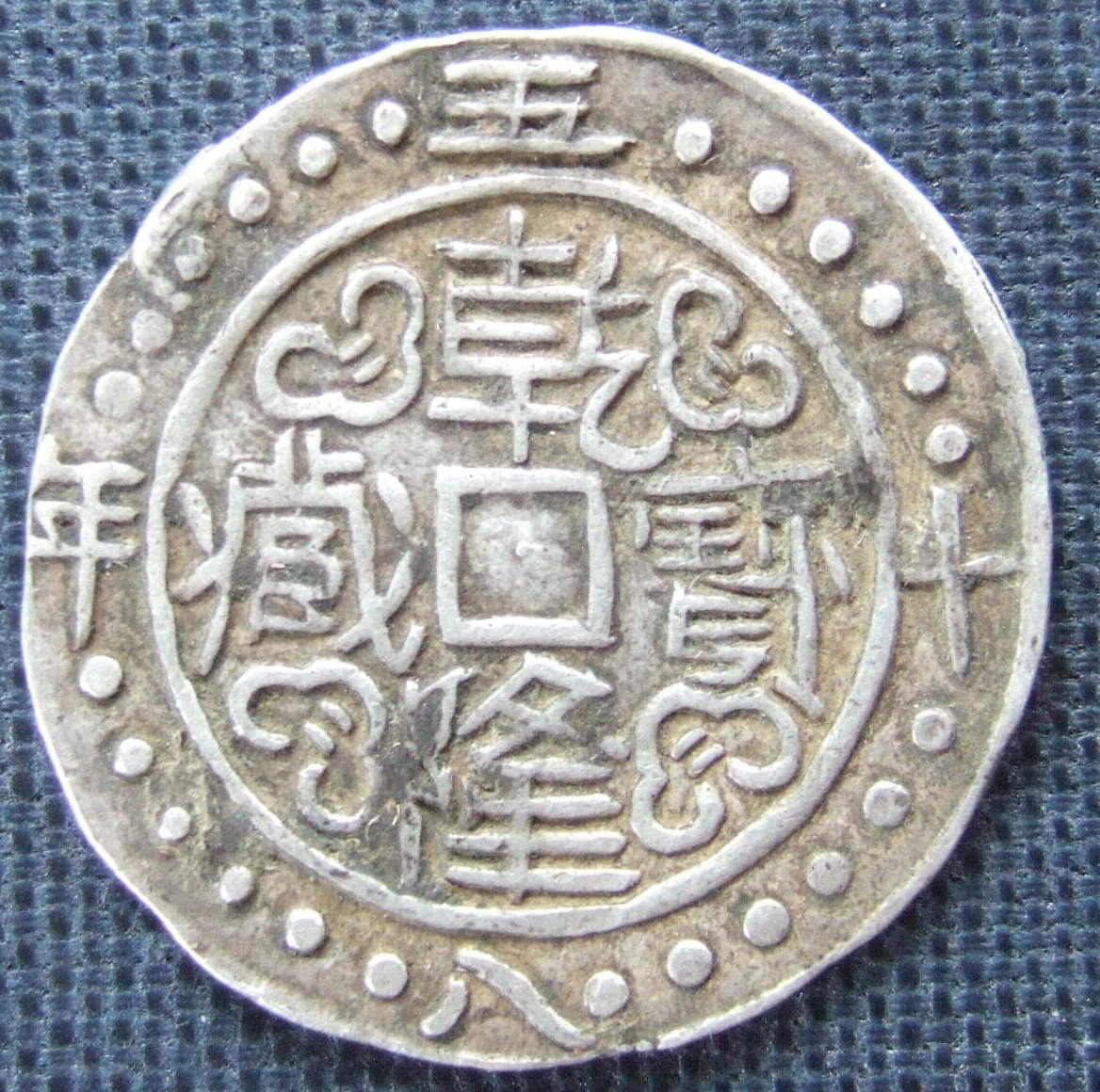 Sino-Tibetan silver tangka, dated 58th year of Qian Long era (= A.D. 1793), obverse